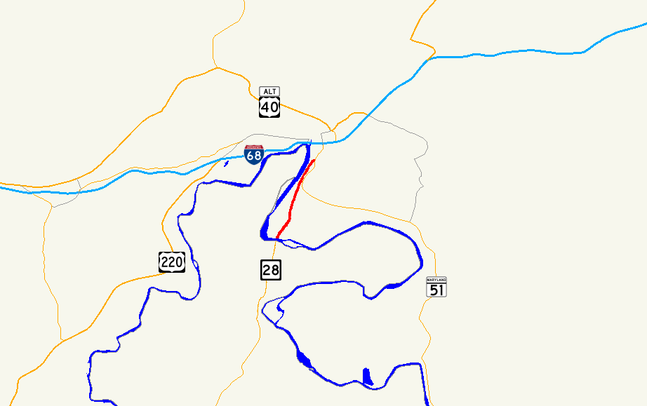 Map of Maryland Route 61